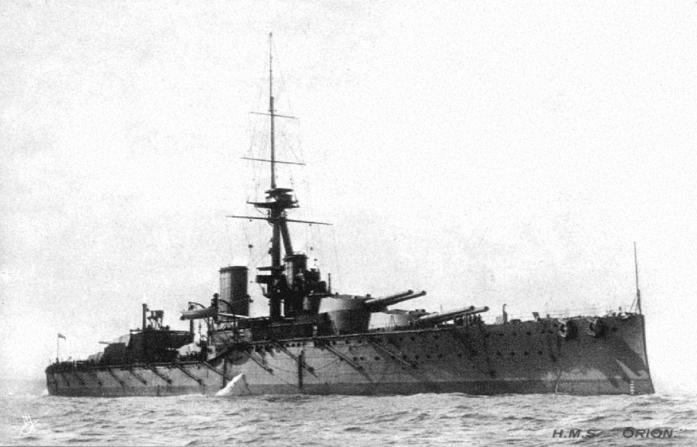 HMS Orion (Orion-class battleship).